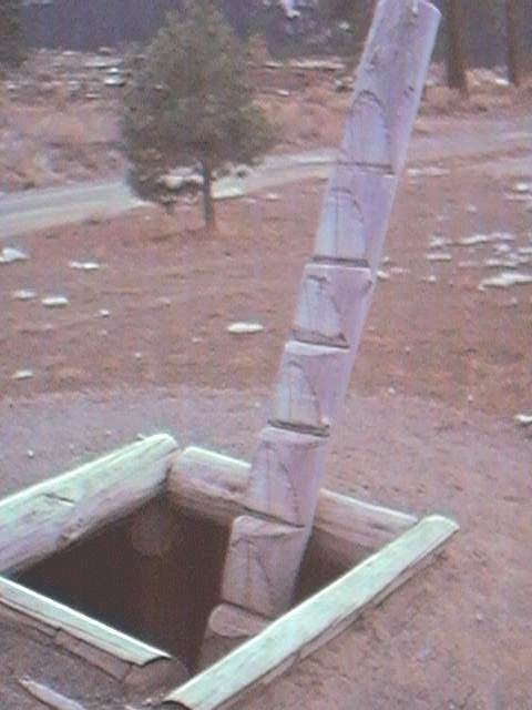 Quiggly hole, or Si7xten, in Lillooet, 1996